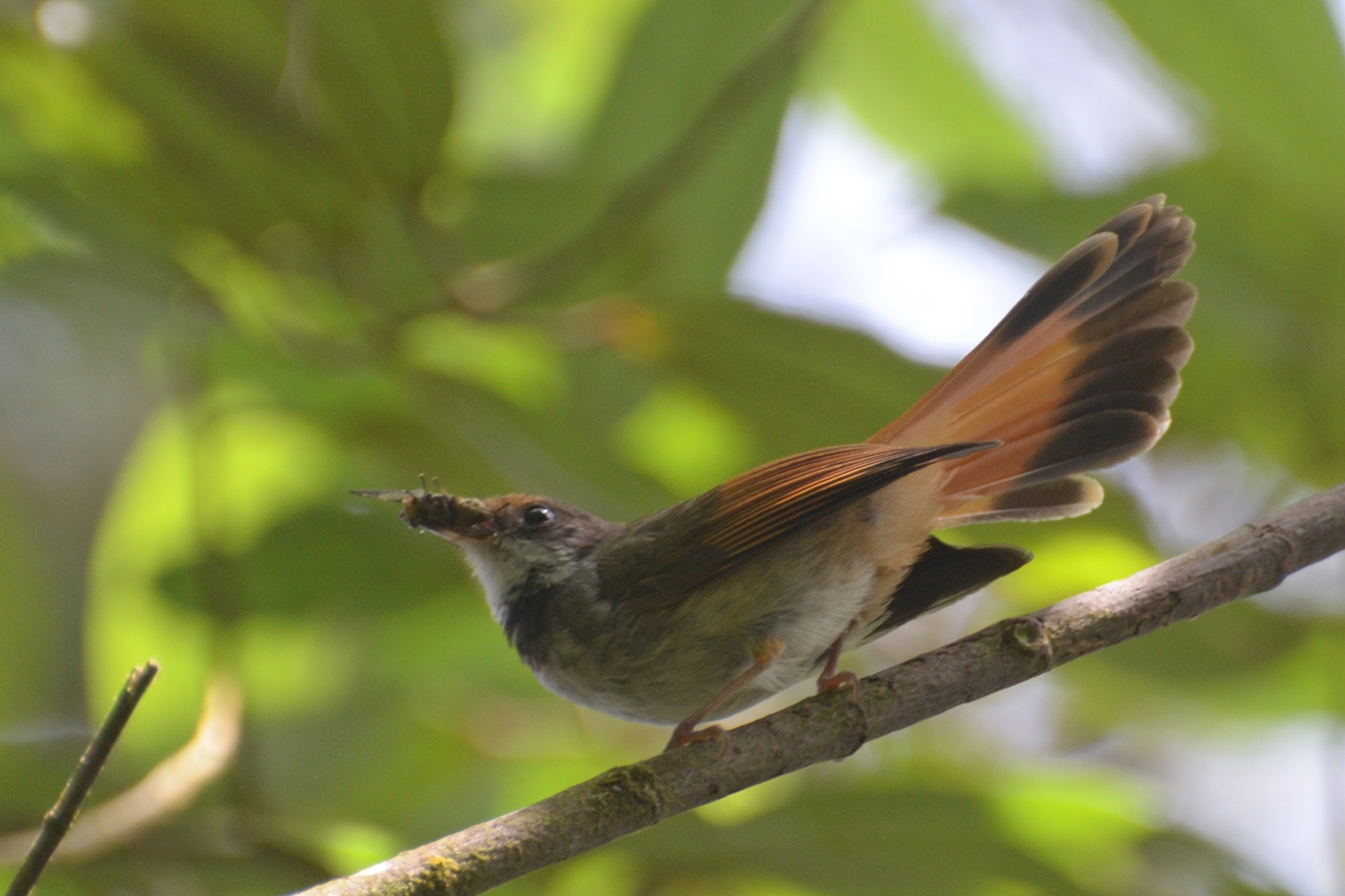 Rusty-bellied fantail (Rhipidura teysmanni toradja) at Mount Soputan Protected Forest, North SulawesiBahasa Indonesia: Kipasan sulawesi (Rhipidura teysmanni toradja) di Hutan Lindung Gunung Soputan, Sulawesi Utara